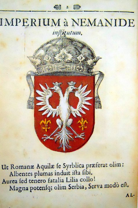 Coat of arms of the Nemanjić dynasty, by Pavao Ritter Vitezović in his Stemmatographia.